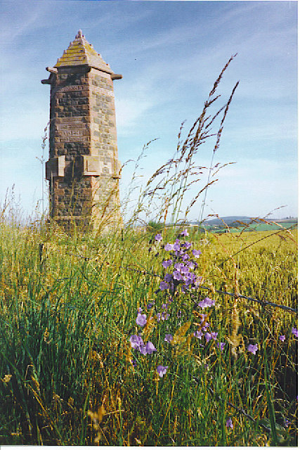 Harlaw Monument.